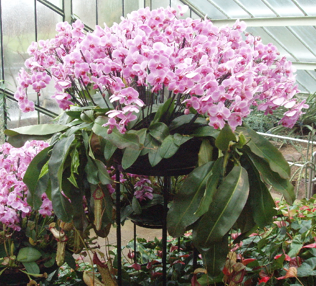 Orchid flowers and pitchers at Kew. This massed flower display is part of Kew's Tropical Extravaganza to mark its 250th anniversary. It is in the Princess of Wales Conservatory. See 1156280 for a close up of the pitcher plants, and 1156283 for an informal display of orchids.